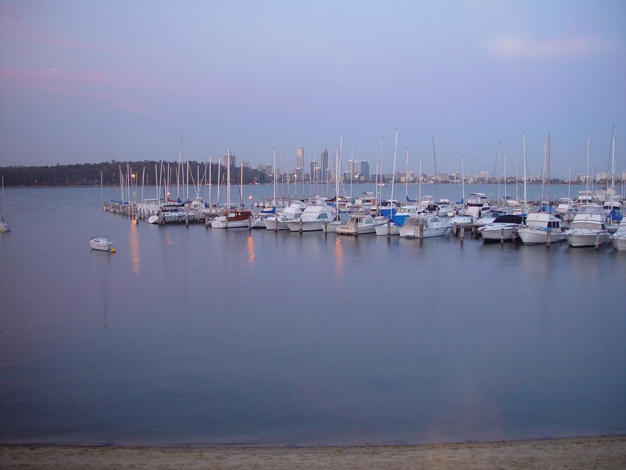 Image title: Boats moored at royal perth yacht club Image from Public domain images website